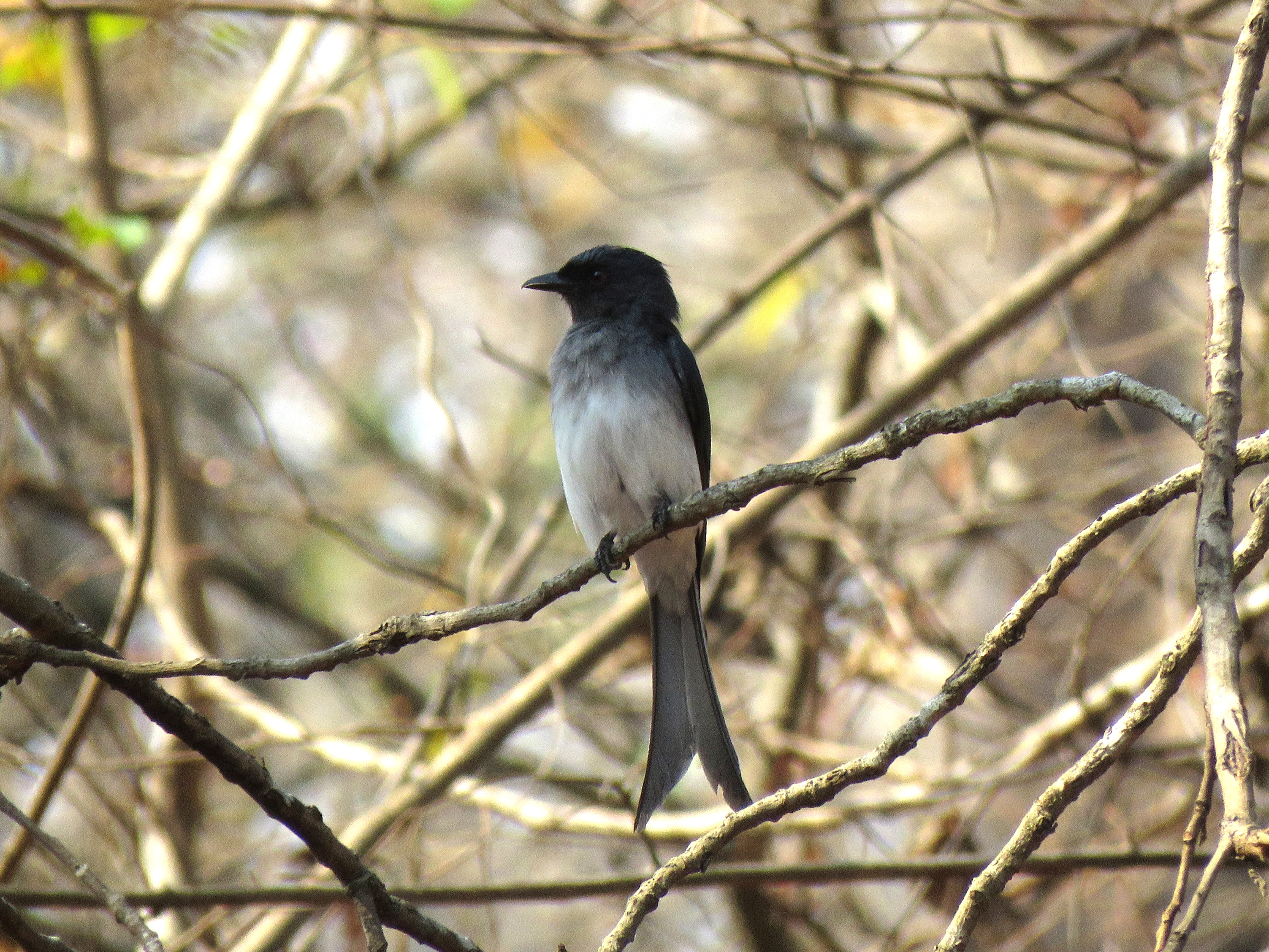 White-bellied drongo IMG 0701 Walayar